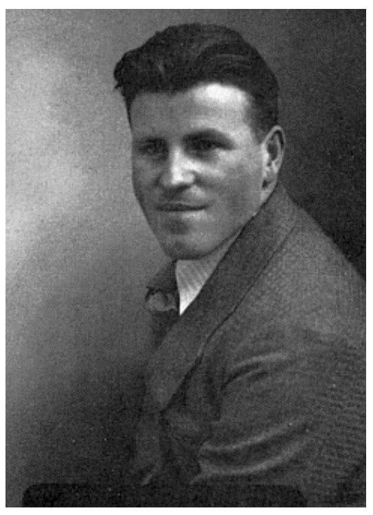 František Seidel (Franz Seidel) (* 21 May 1908, Český Krumlov - 7 January 1997, Český Krumlov) - portrait and landscape photographer (his father was photographer Josef Seidel); photo was taken around 1933.